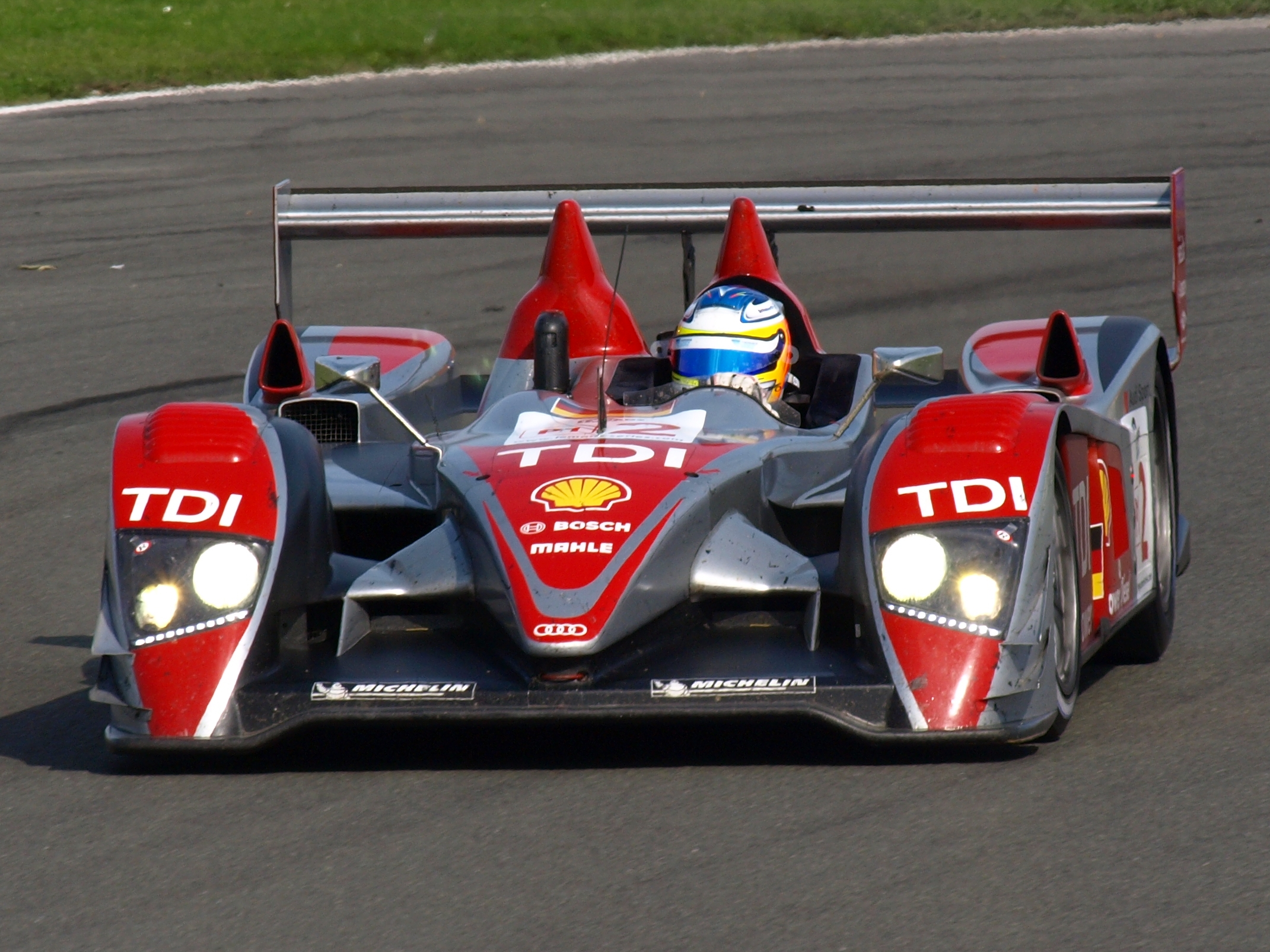 Mike Rockenfeller driving the Audi R10 at the 2008 1000km of Silverstone